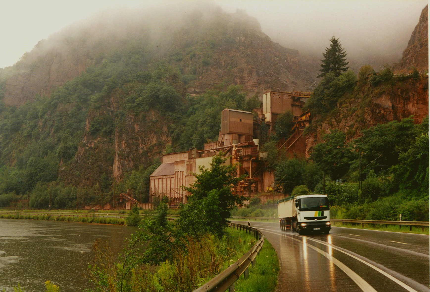 The Saar river and the quarry near TABEN-RODT, in a misty July 2000 day, Rhineland-Palatinate.